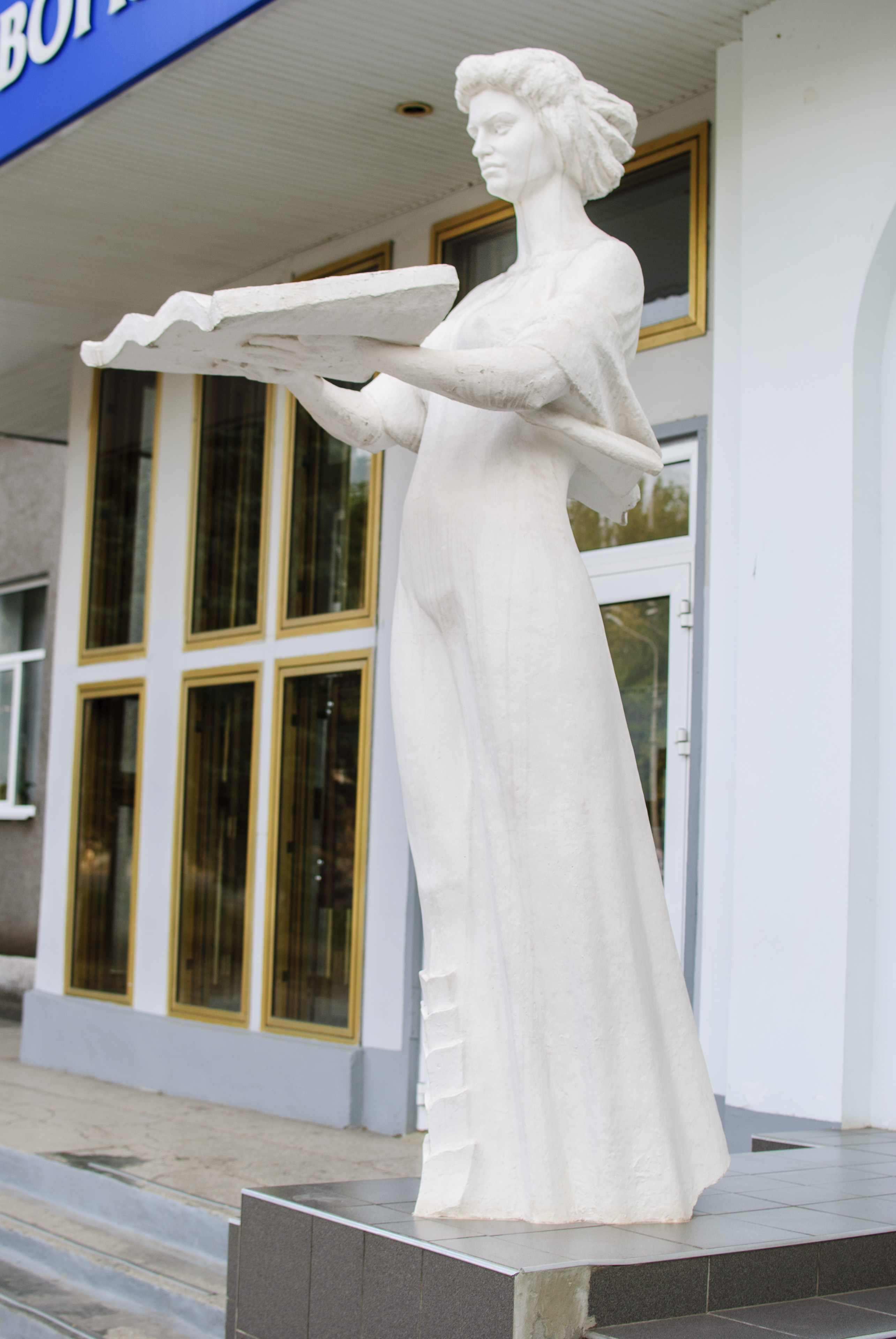 Криворізький державний педагогічний університет